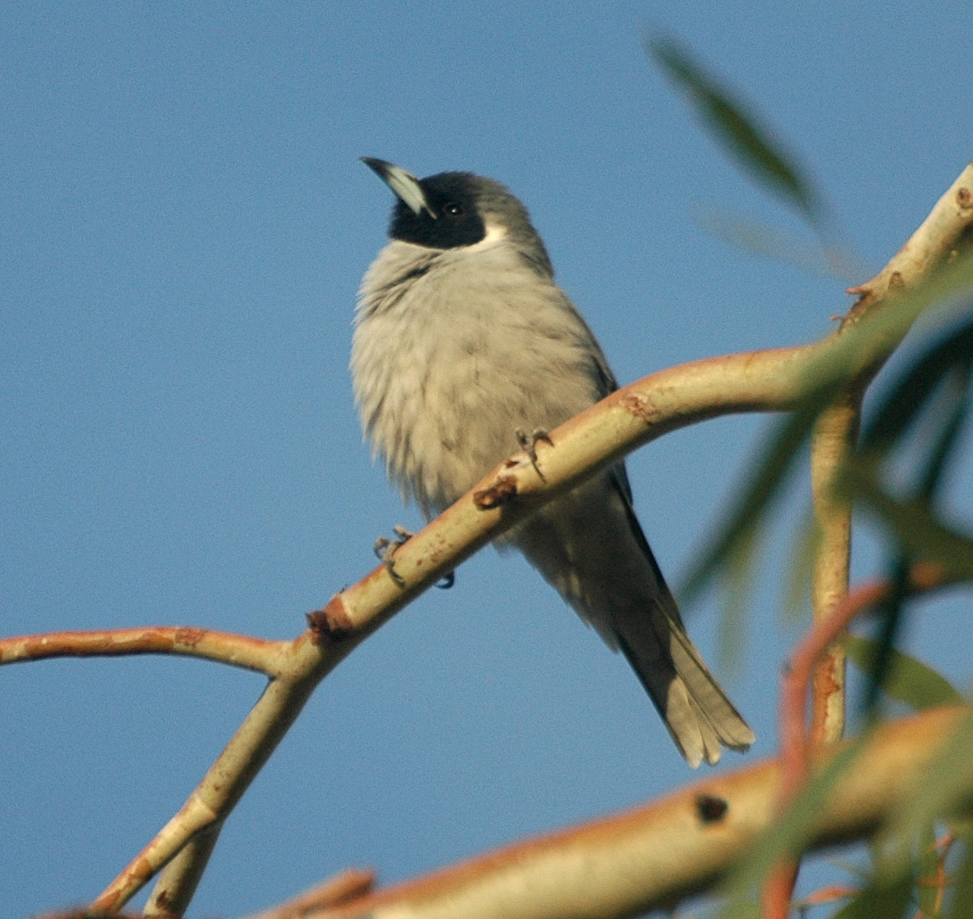 Masked Woodswallow (Artamus personatus) Bowra, SW Queensland, Australia